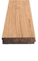 Tongue-and-grooved parquetry board.